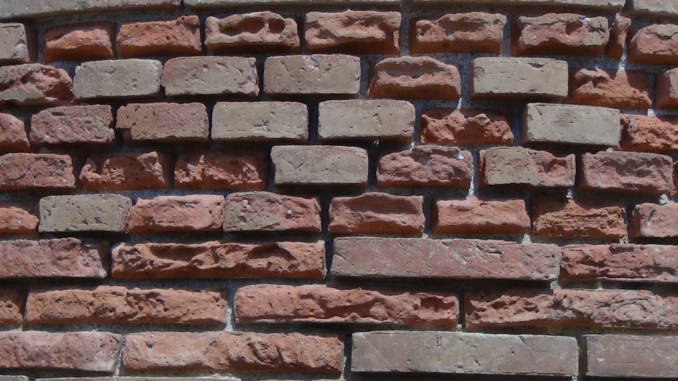 Pathologies of industrial chimneys